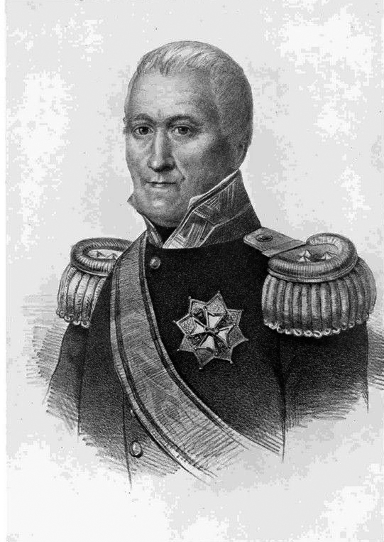 Cornelus Rudolphus Theodorus Krayenhoff (1758-1840)